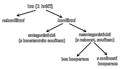 antagonistic and nonantagonistic conficts